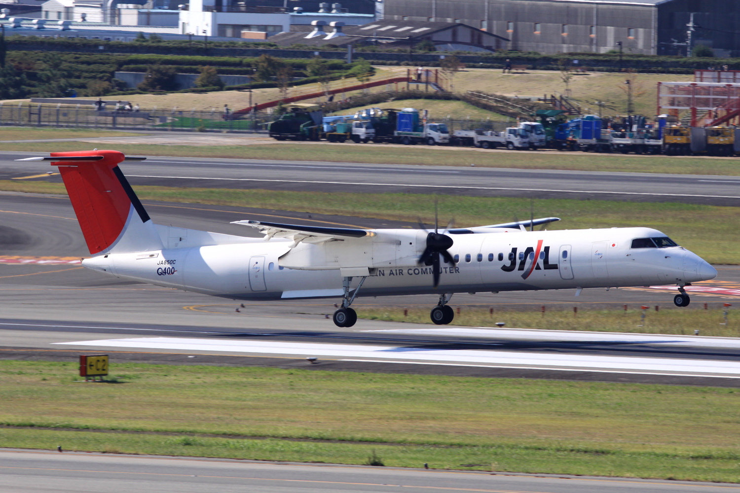 JA850C moments from touchdown at Runway 32R, Osaka International Airport